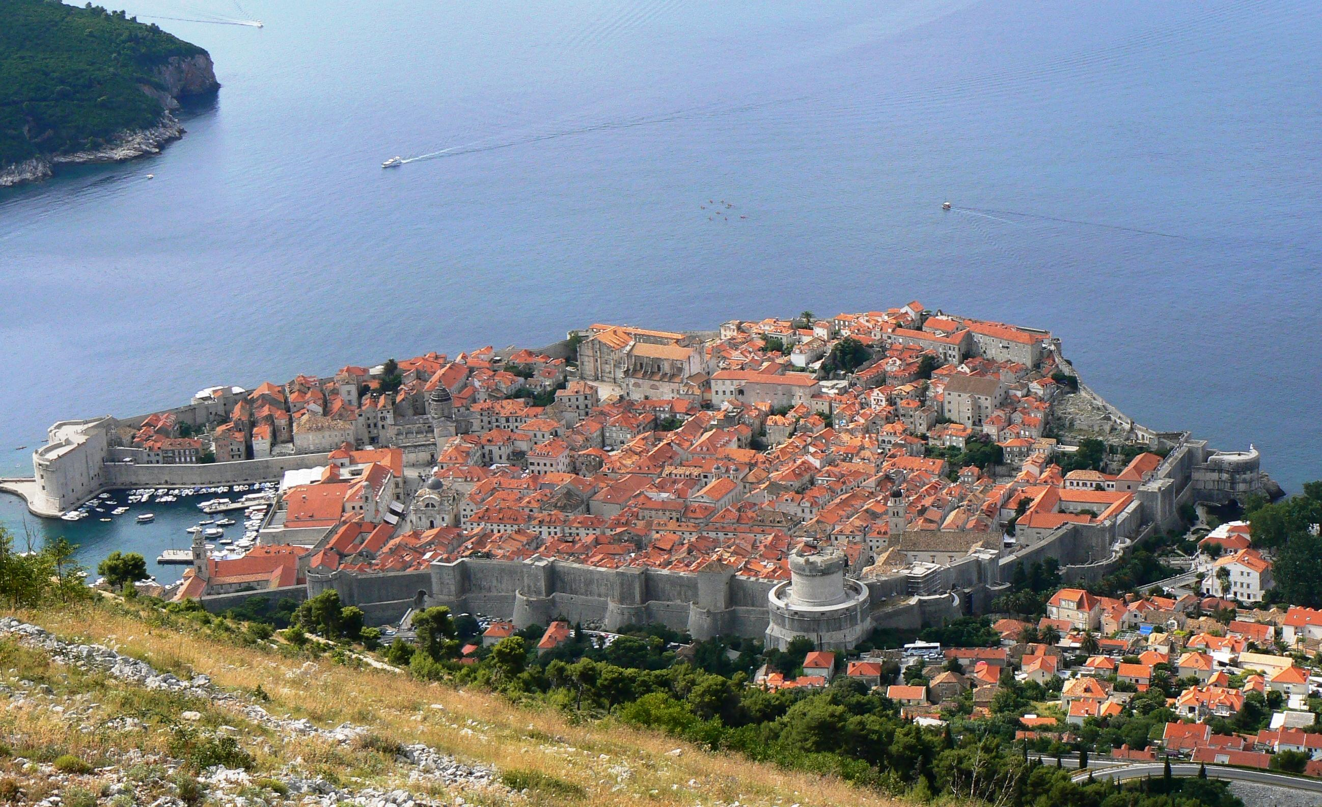 General view of the old town of Dubrovnik.